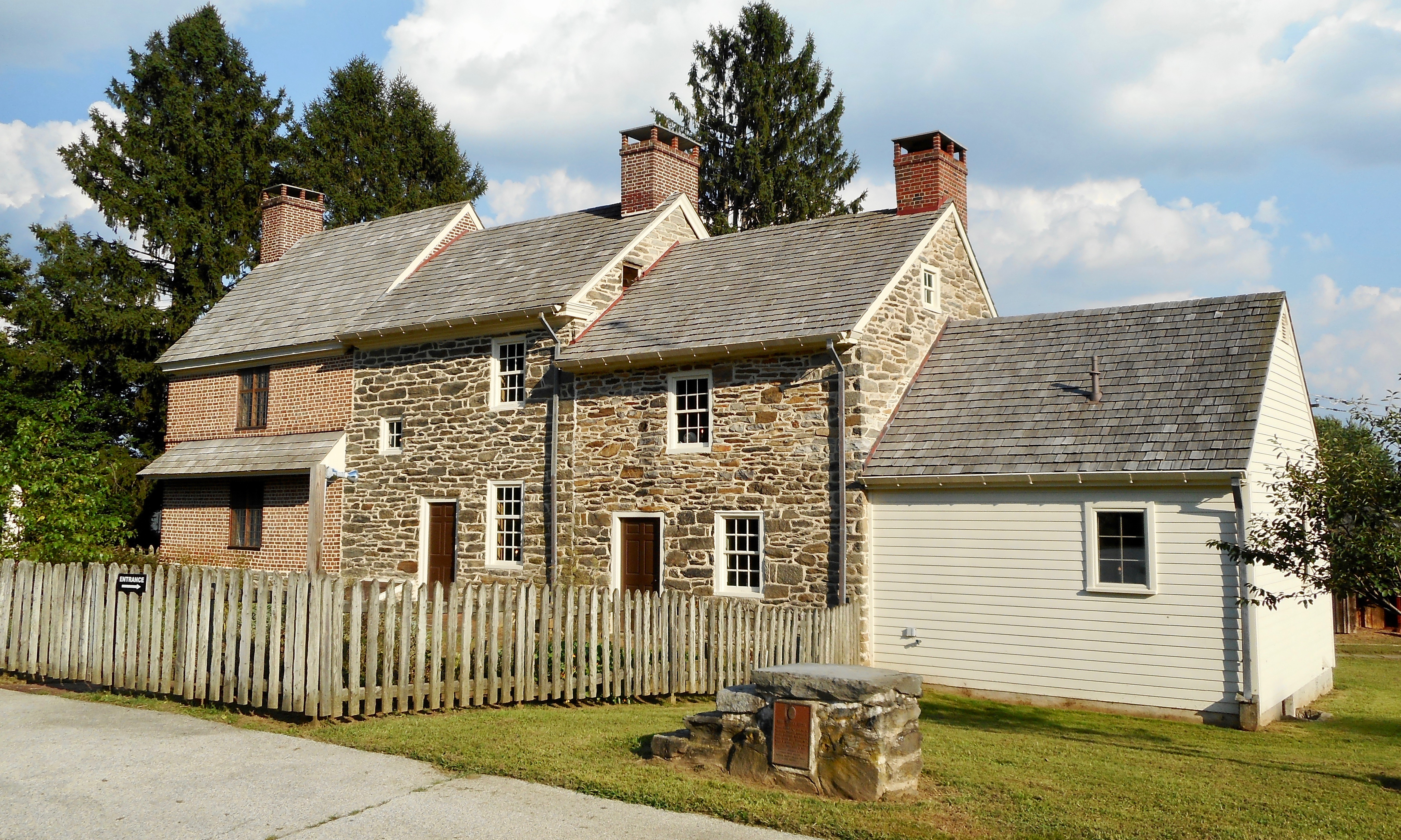 Thomas Massey House, listed on the NRHP on November 16, 1970 (Reference 70000904) At Lawrence and Springhouse Roads (off Lawrence just north of a church). 39°57′57″N 75°21′07″W Marple Township, Delaware County, Pennsylvania